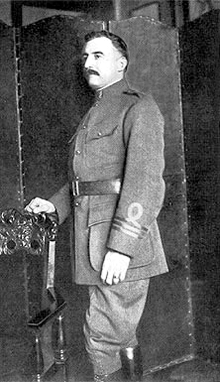 Dr. Edmund Gros, an American physician living in France, who was instrumental in persuading the French Government to form the Escadrille Americaine. Later, he suggested its new name - Lafayette Escadrille. After the U.S. entered the WWI, Dr. Gros was appointed Lt. Colonel and served as a liaison between the French and U.S. Army aviation authorities. A historic photo provided by the U.S. Air Force.